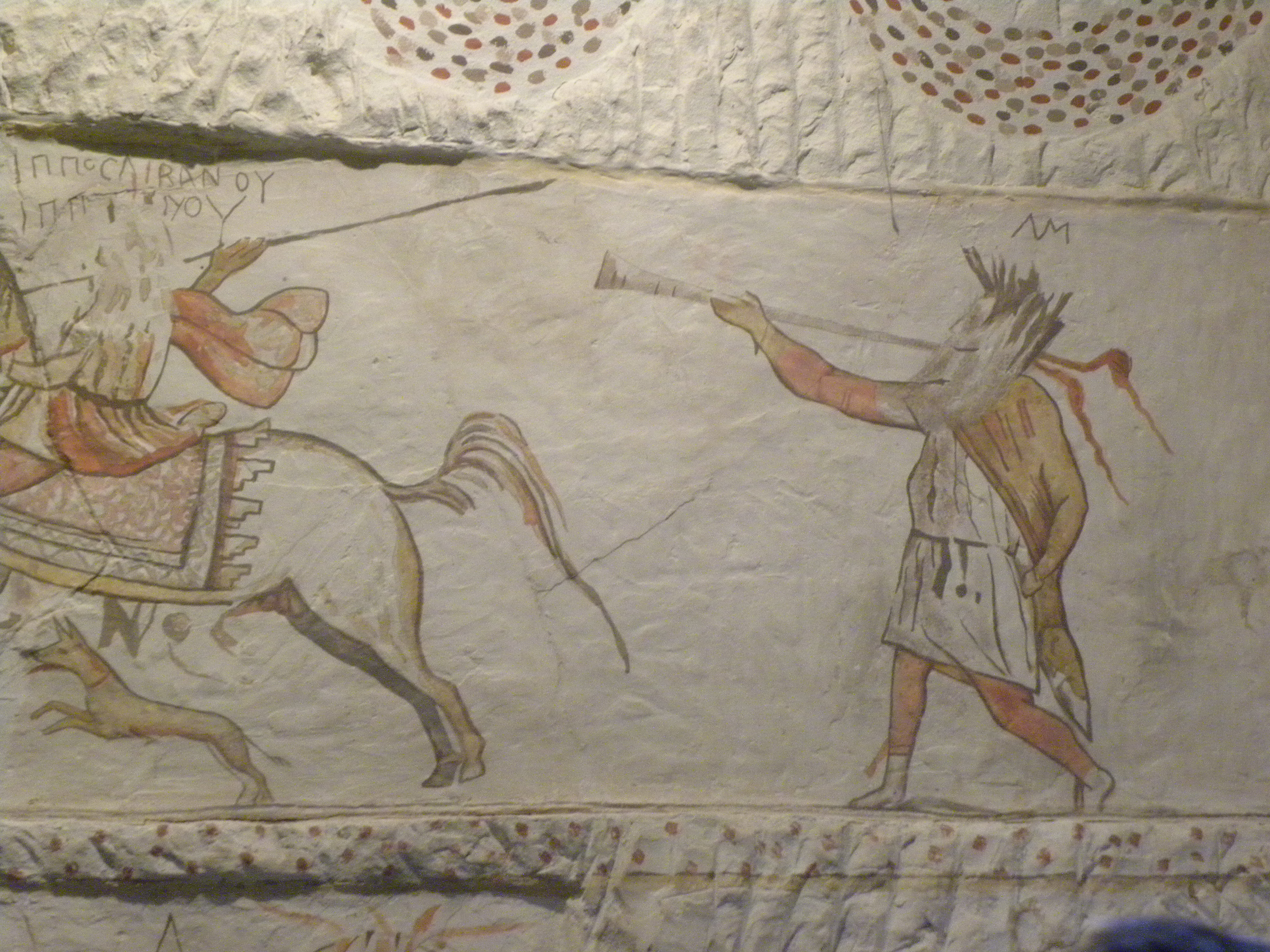 Hellenistic tomb paintings at Sidonian Burial Caves: This tomb complex is cut into the chalk hills of the Judean Shephelah. The necropolis and it's paintings date to the 3rd century BCE and illustrates the presence of highly hellenized culture in the century following Alexander's conquest of the region. Interestingly, this tomb also illustrates the kokkhim style of burial which became standard for Jewish tombs in the Maccabean and early Roman periods. Bodies were placed in the niches radiating out from the central chamber.